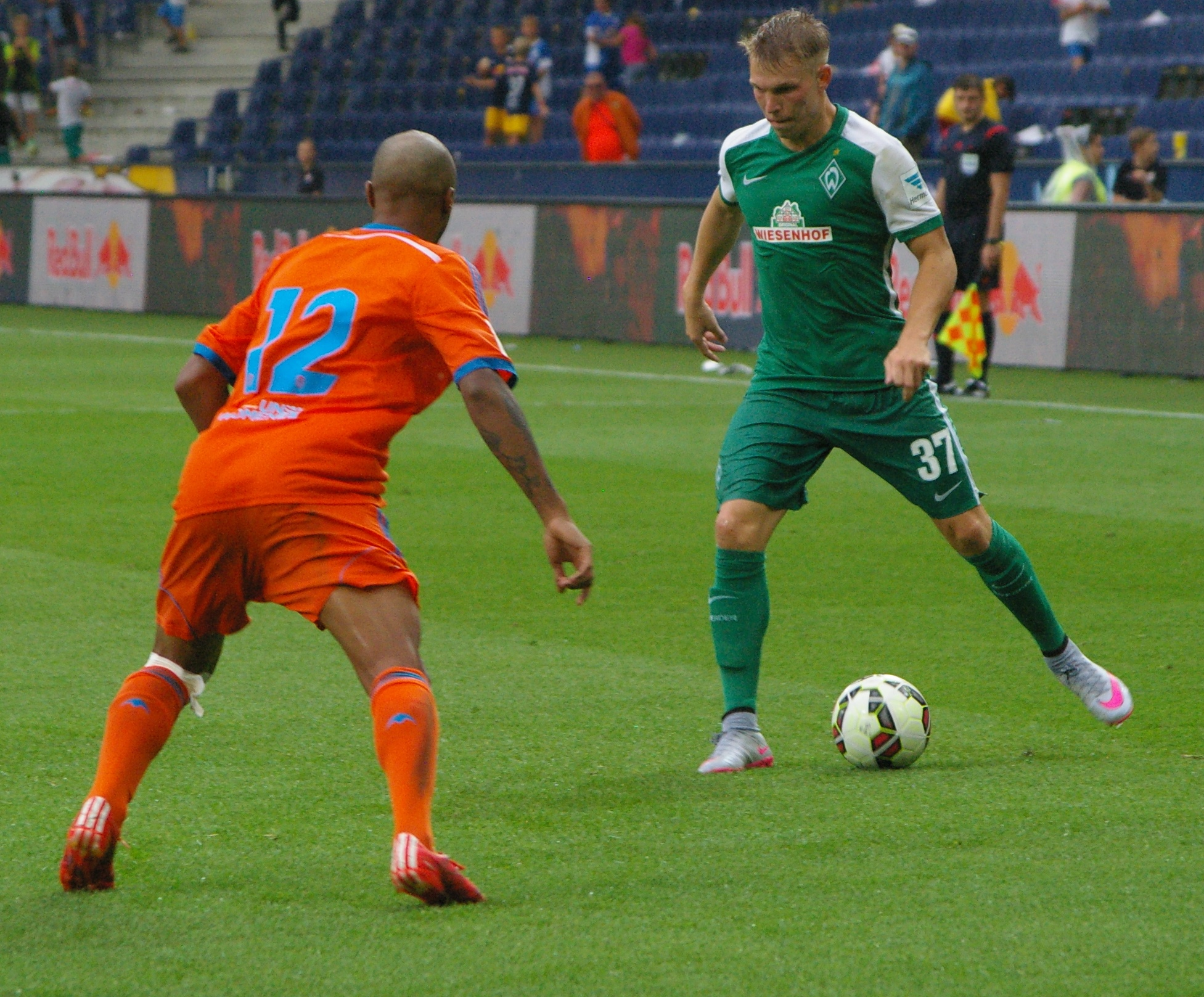 tournament with SV Werder Bremen, FC Southampton, Red Bull Salzburg and Valencia CF preseason friendly matches